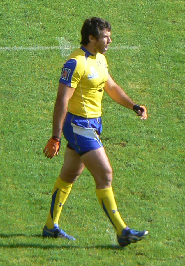 28 août 2010